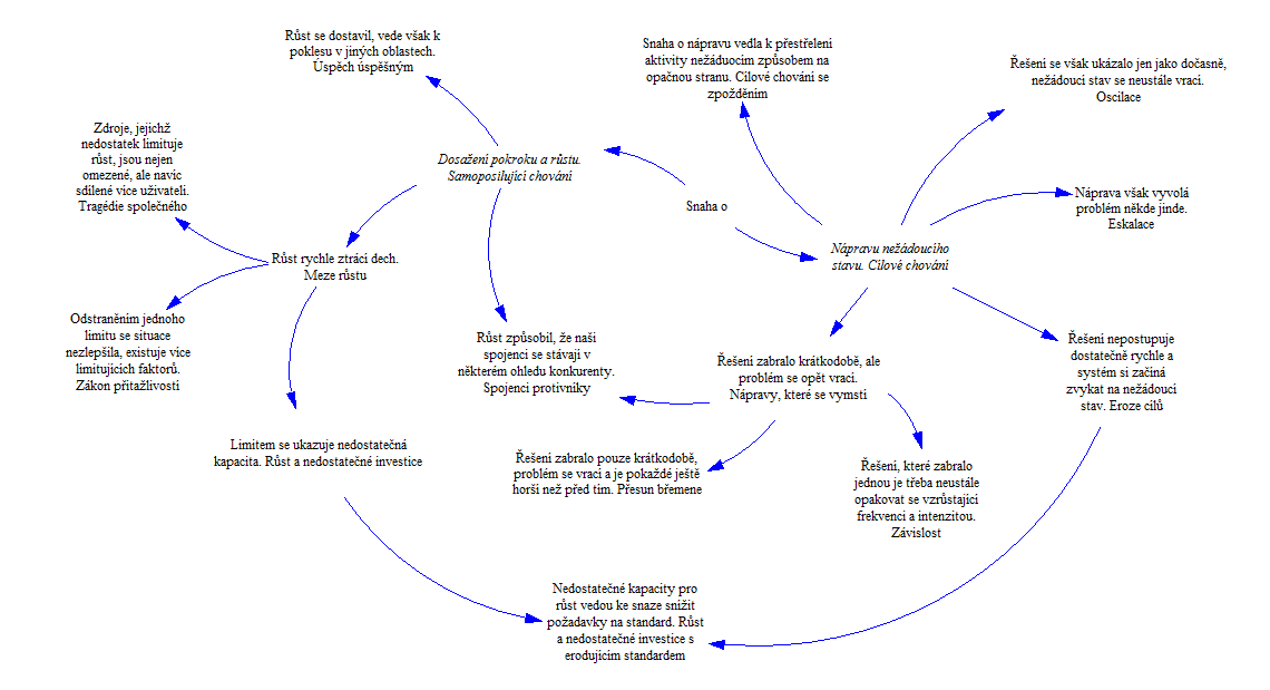 Map of interdependence archetypes